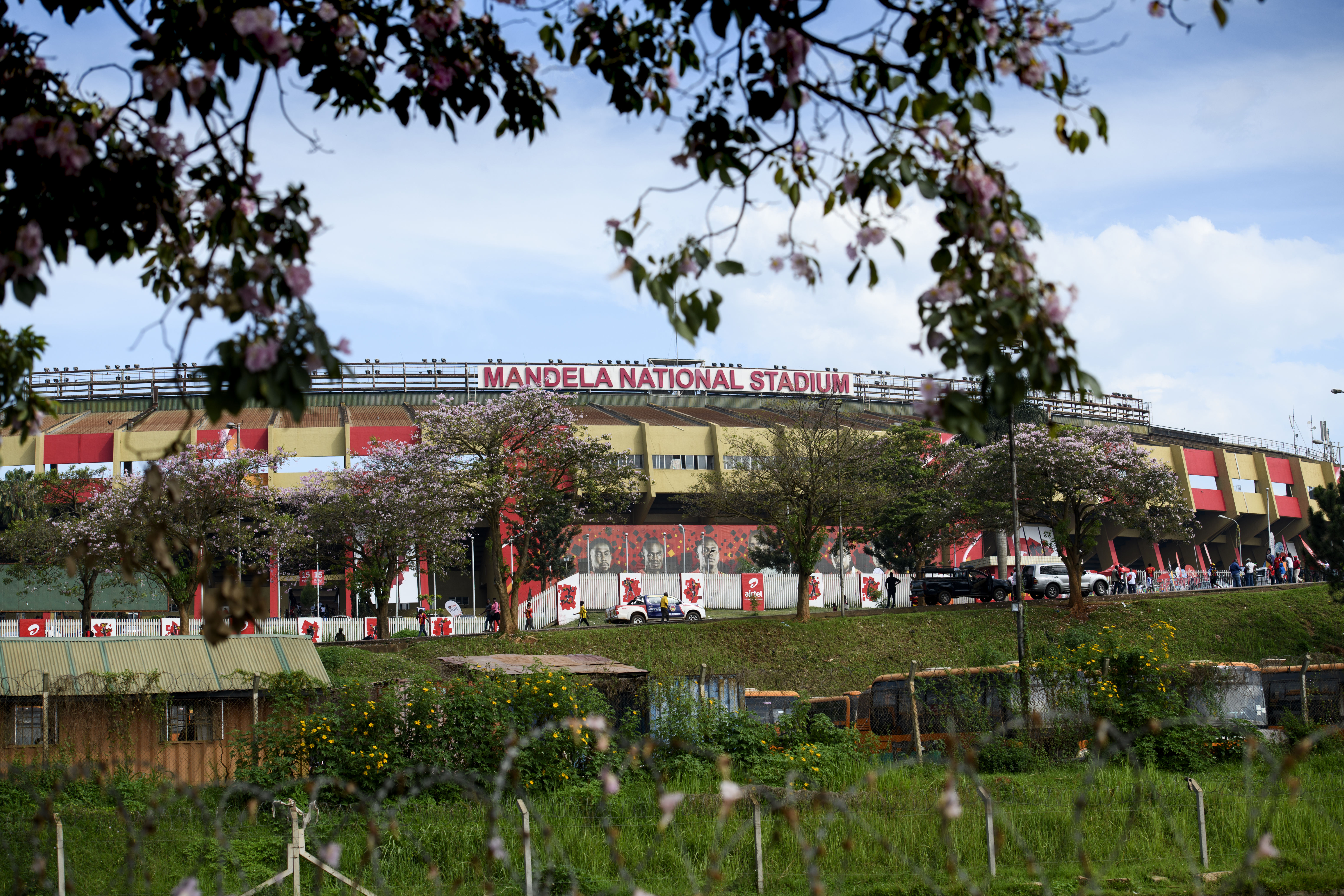 The National stadium of Uganda